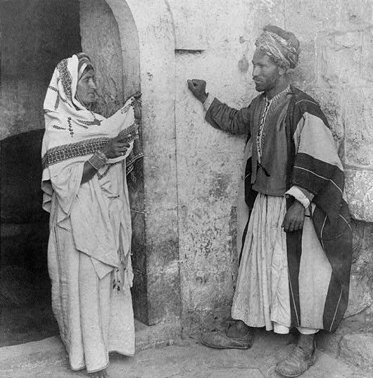 two palestinians chatting in 1890 Original text from image: A Man and Woman of Ramallah (Ancient Ramah), Palestine (Jer. xxxi:15). Copyright 1900 by Underwood & Underwood. Washington, D.C. Arlington, N.J. Littleton, N.H.